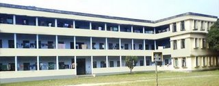 Old Hostel